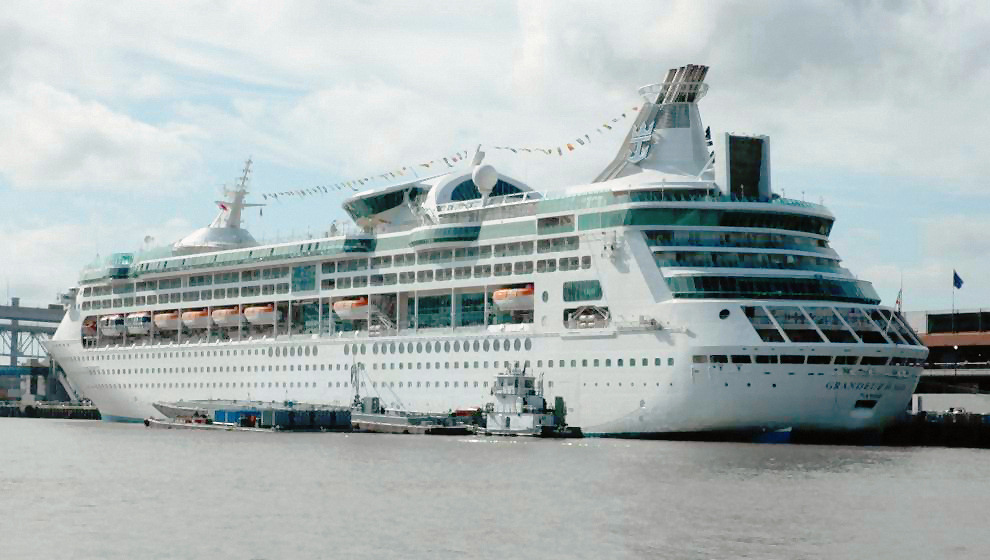 Royal Caribbean International cruise ship Grandeur of the Seas docked at New Orleans on January 3, 2005. Picture by J. Glover (AUTiger)